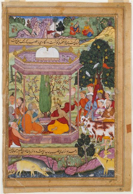 Ramayana of mughal